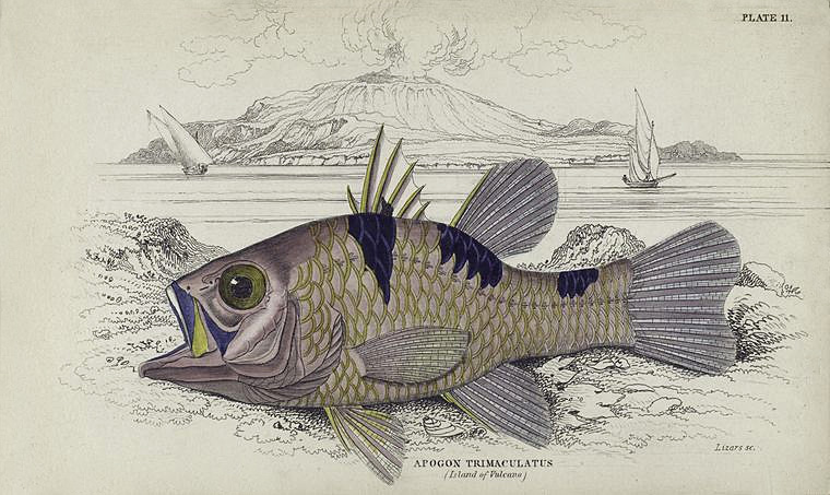 Apogon trimaculatus (Island of Vulcano). 1835. (The natural history of fishes of the perch family. Illustrated by thirty-six plates coloured; with memoir and portrait of Sir Joseph Banks, bart., Series : The naturalist's library. Ichthyology. vol. I.)